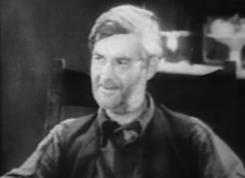 Snapshot from Riders of Destiny (1933)